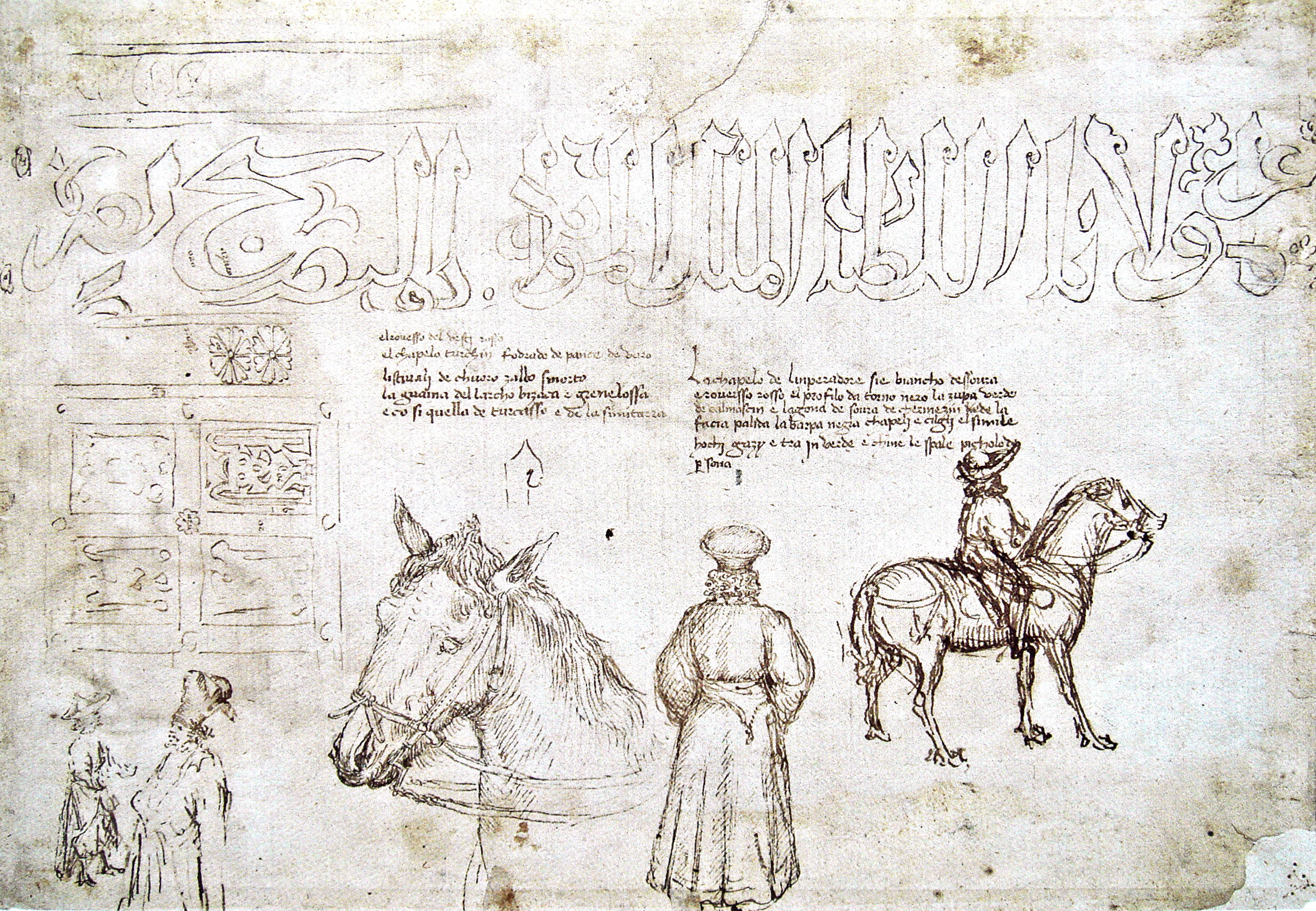 Sketches_of_John_VIII_Palaiologos_during_his_visit_at_the_council_of_Florence_in_1438_by_Pisanello.